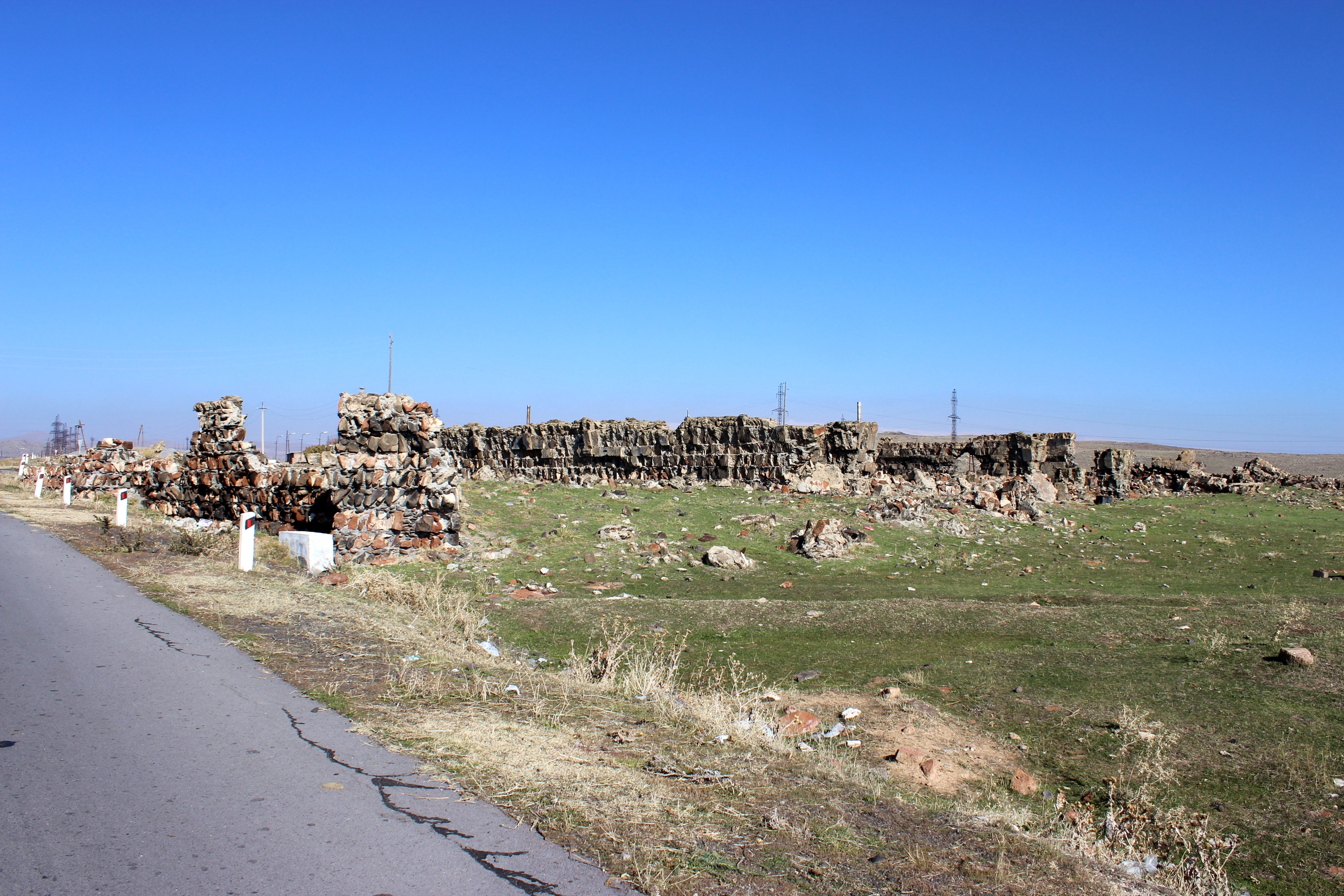 Ruins of a caravanserai south of Talin, Aragatsotn Province, Armenia.